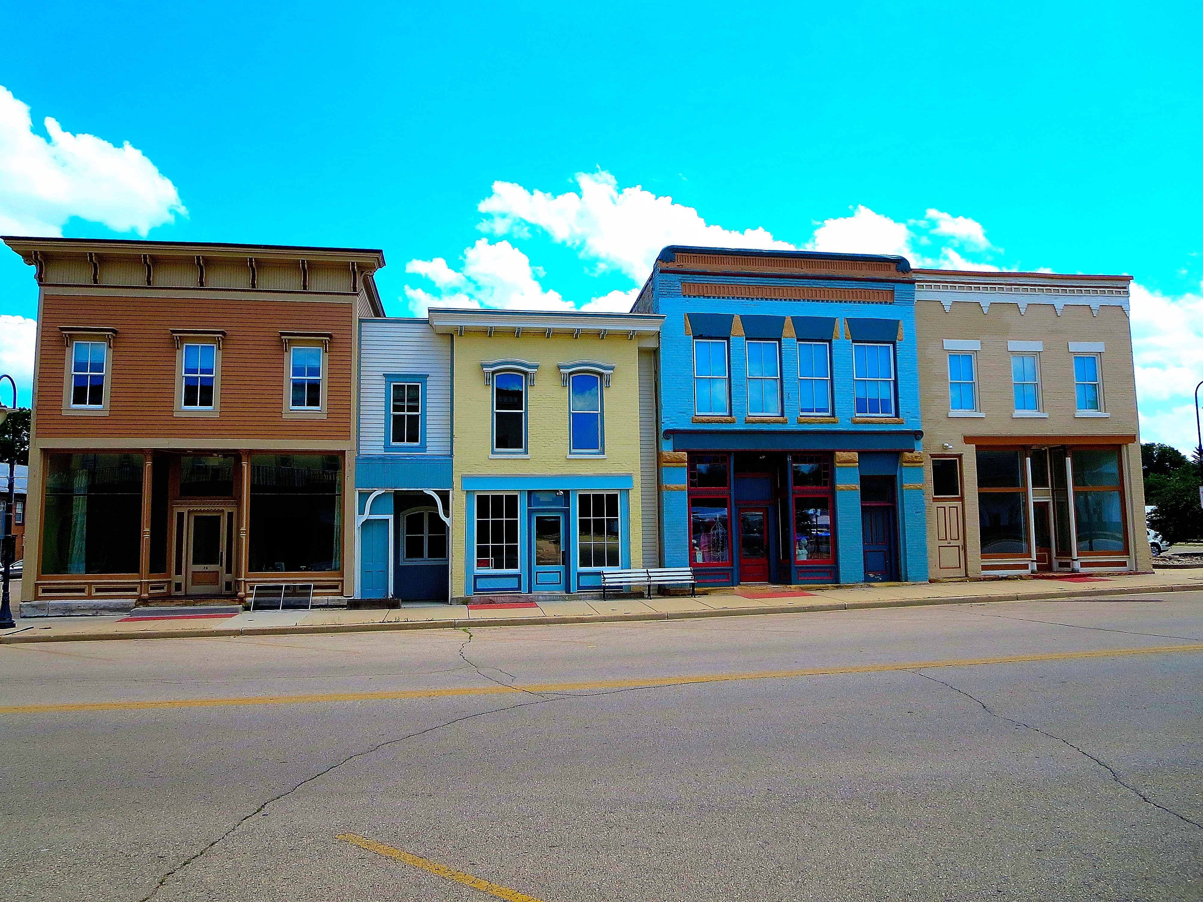 Joseph Hausmann Store, Peters Family Store